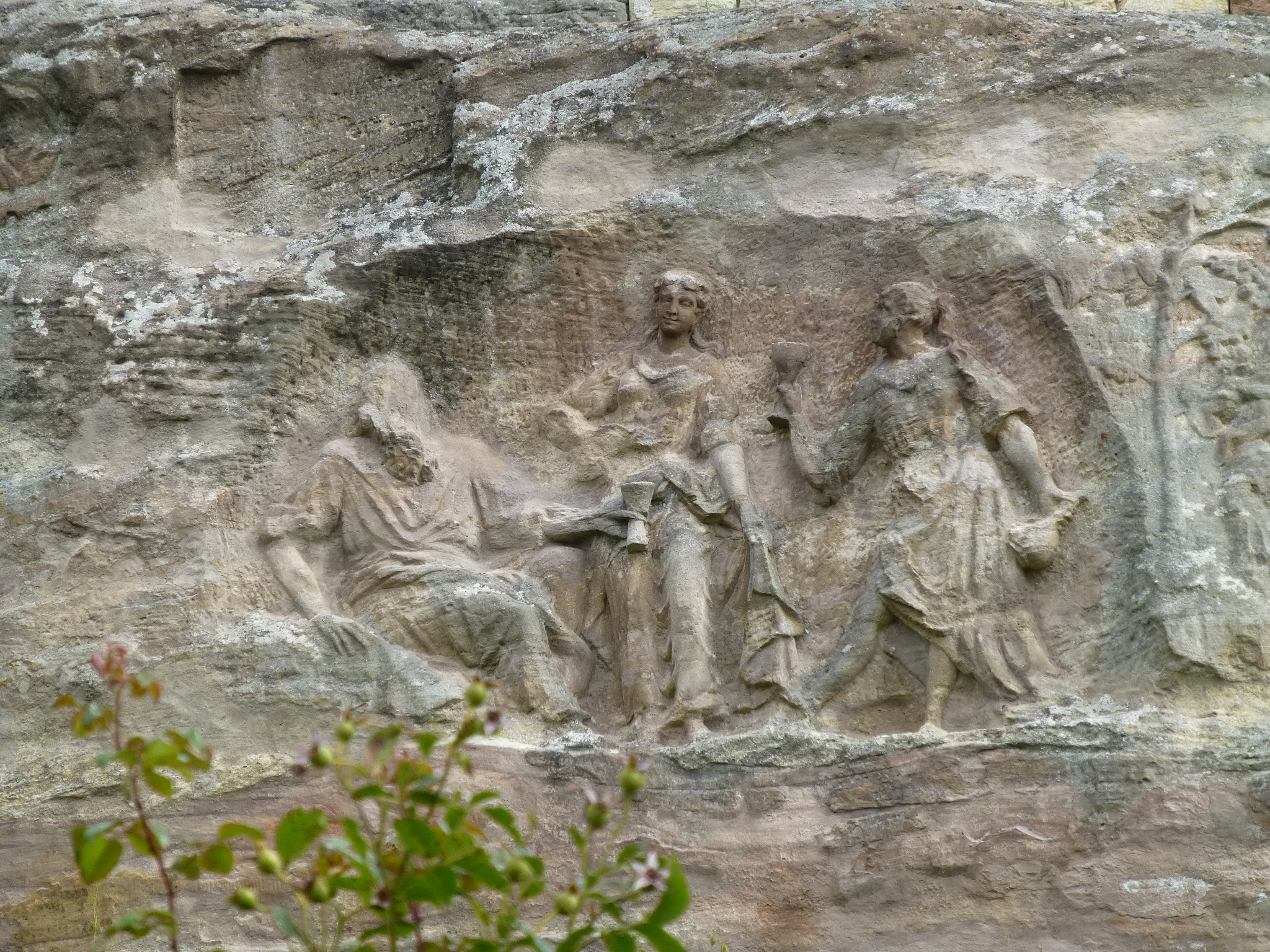 Reliefs carved in rock, 1722, Grossjena, Saale river valley, Saxony-Anhalt. Scene from the Bible in relation with winery: Lot and his daughters.